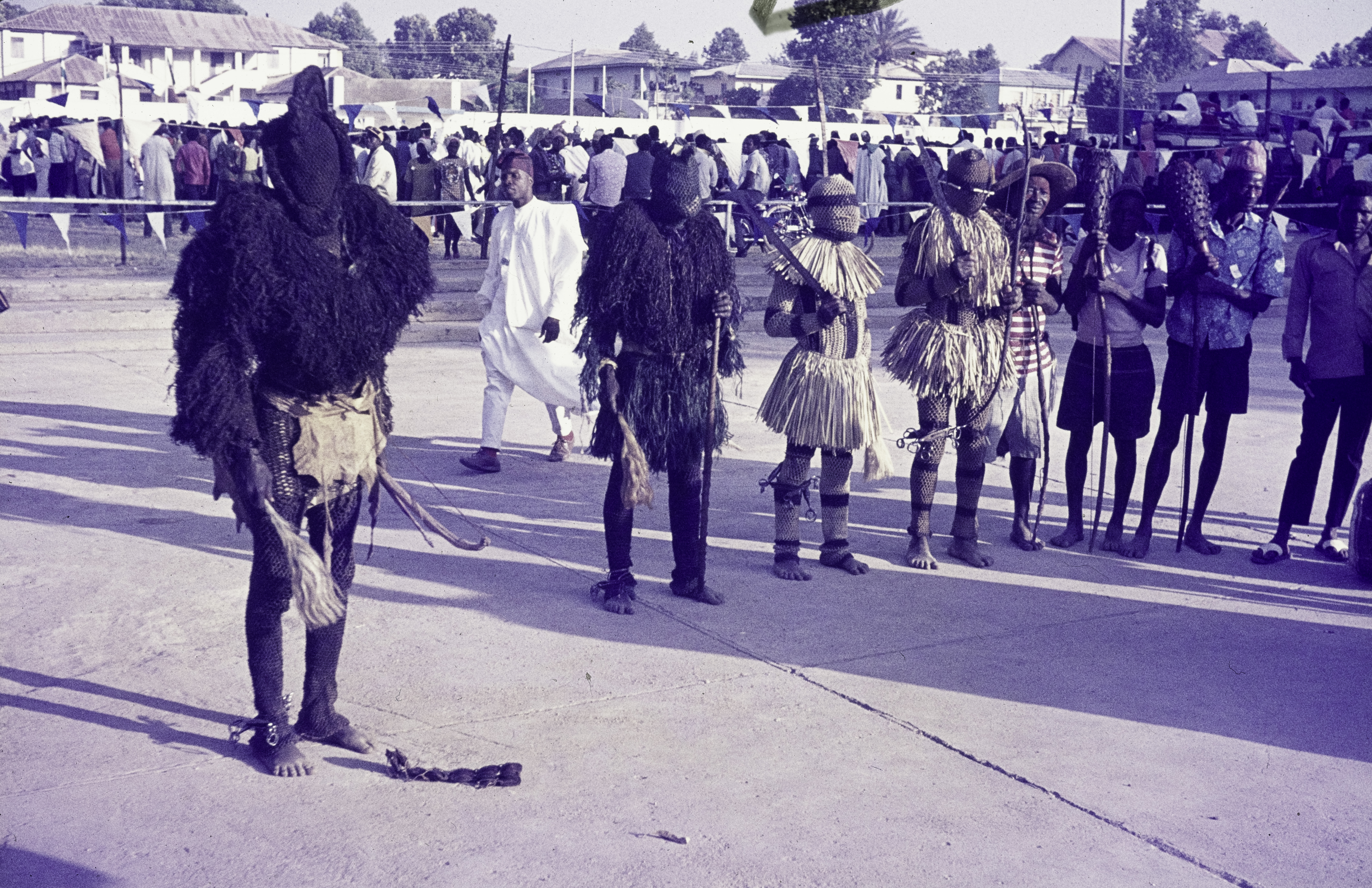 The Jos Ceremony. Four dodos (dodan(n)i, ​​men dressed as evil spirits) and three musicians in a row. A hair braid on the ground. A hadji in white. Clubs with studs as musical instruments. Ringing bells at the ankles?